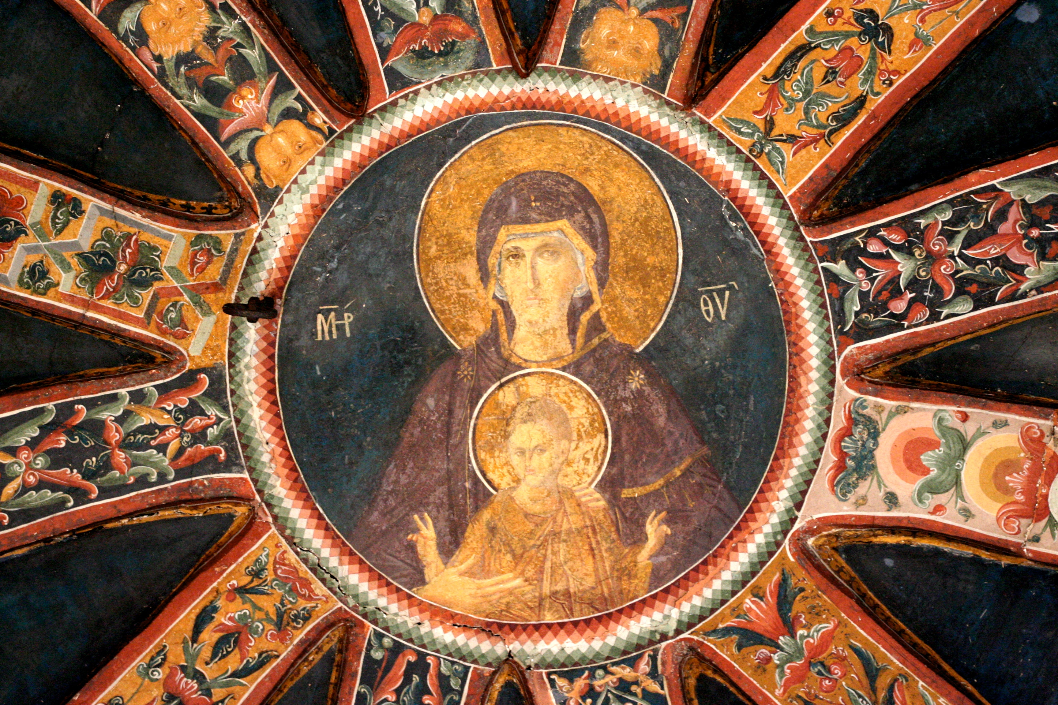 Ceiling fresco of Virgin Mary and Child, Chora Church, Istanbul